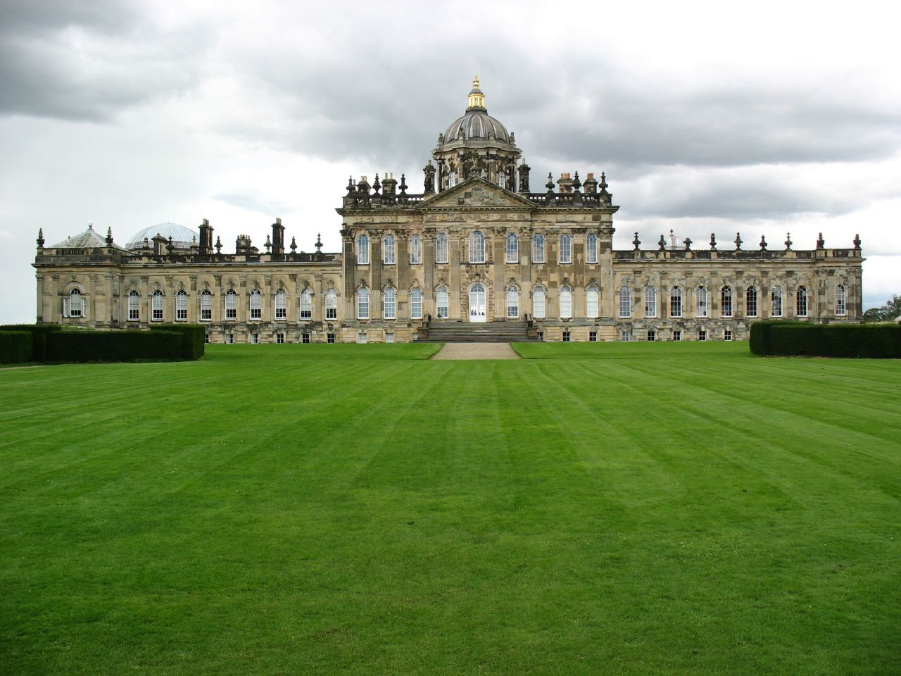 Castle Howard, residence of the Howard family, formerly the Earls of Carlisle, and filming location for the "Brideshead Revisted" miniseries (Yorkshire, England)